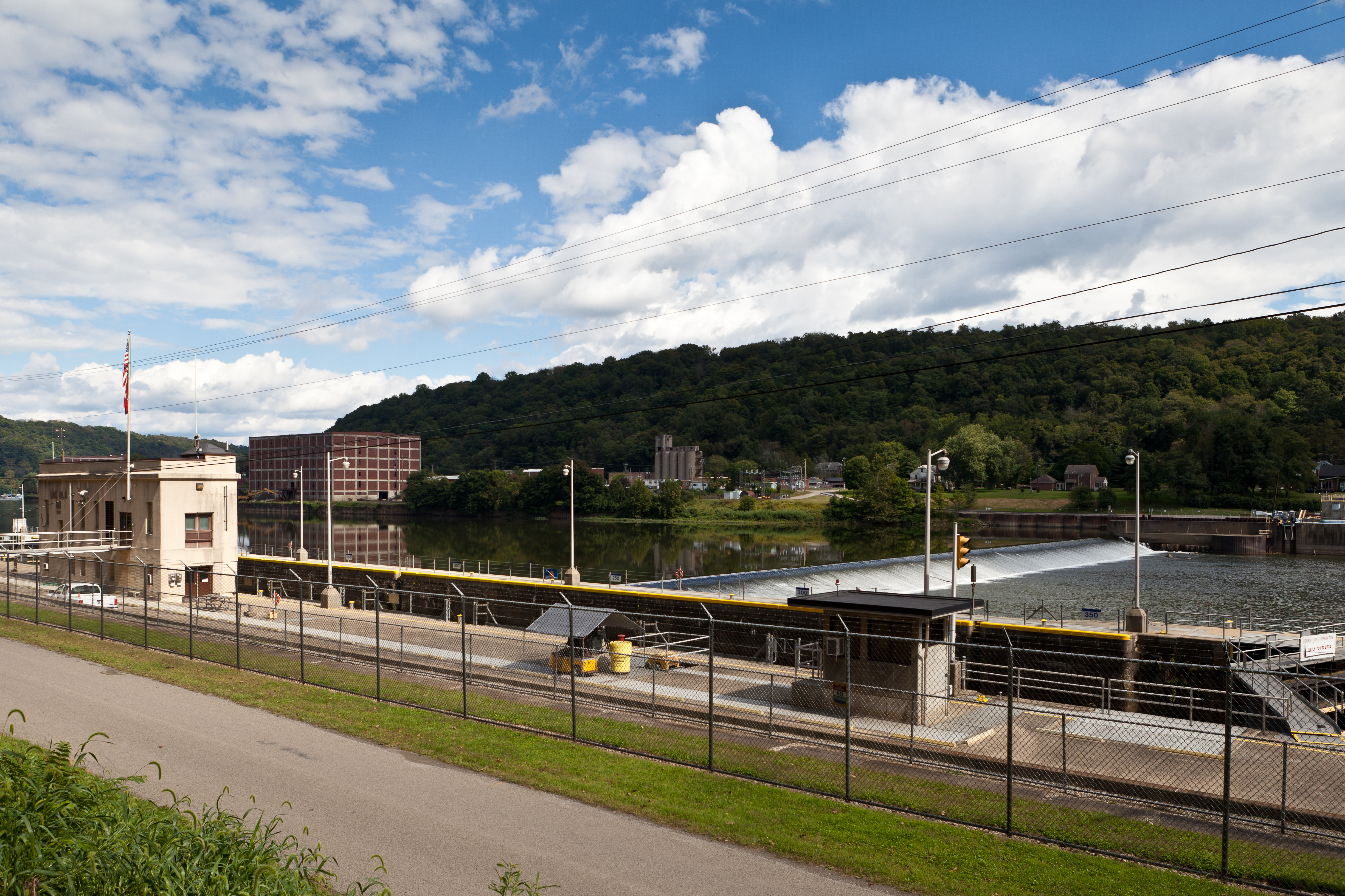 Allegheny River Lock and Dam No. 5, 830 River Road above Freeport Gilpin and South Buffalo Townships